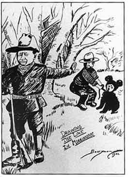 Original "Teddy Bear" Cartoon Image:Teddybear_cartoon.jpg Cartoon from November 16, 1902, by Clifford Berryman, an editorial cartoonist for the Washington Post.